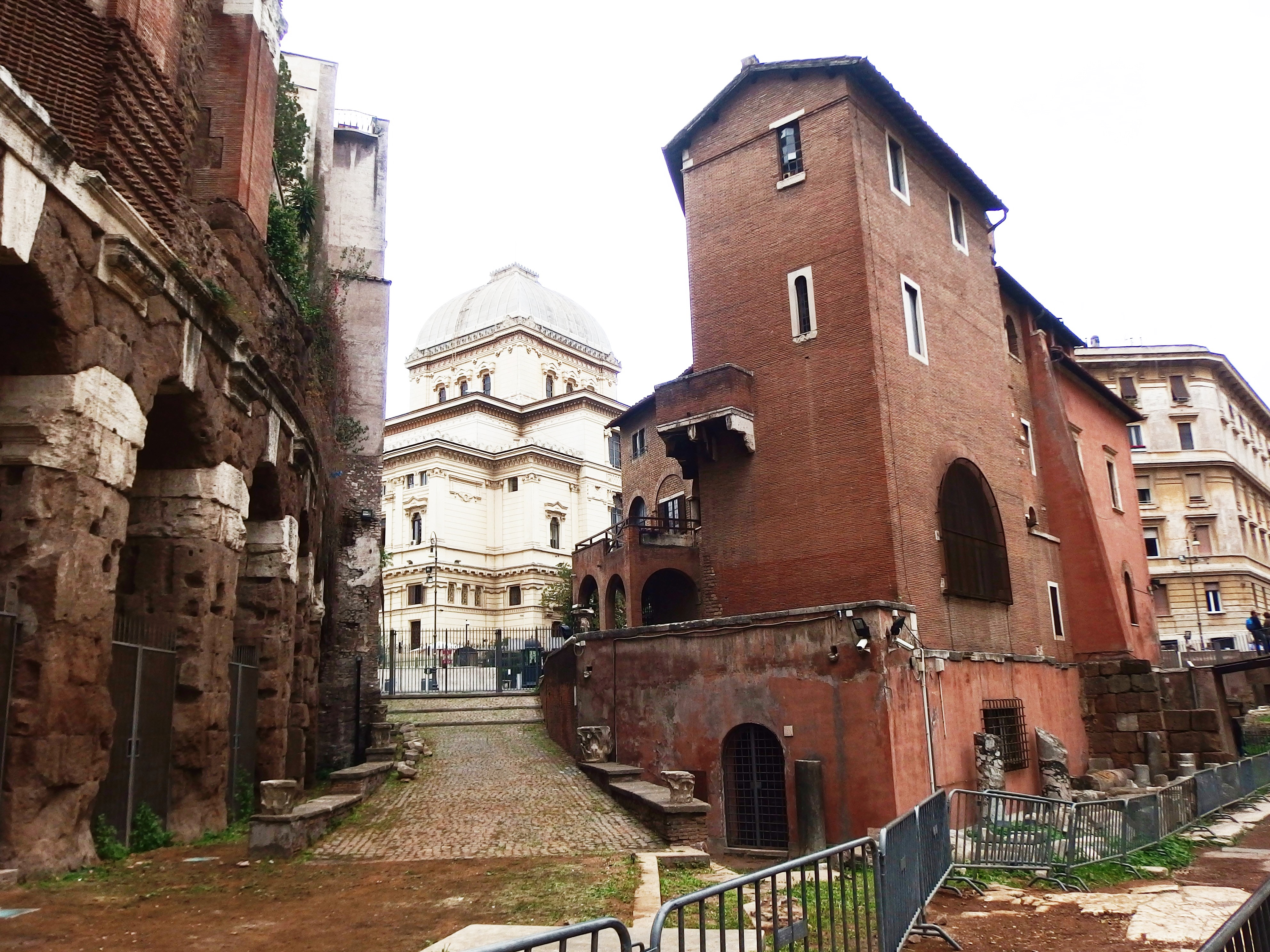 Rome, Italy.